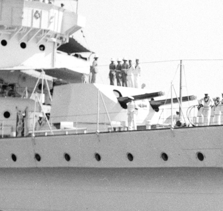 Photograph showing experimental twin 6-inch gun turret on British cruiser HMS Enterprise, at Haifa.